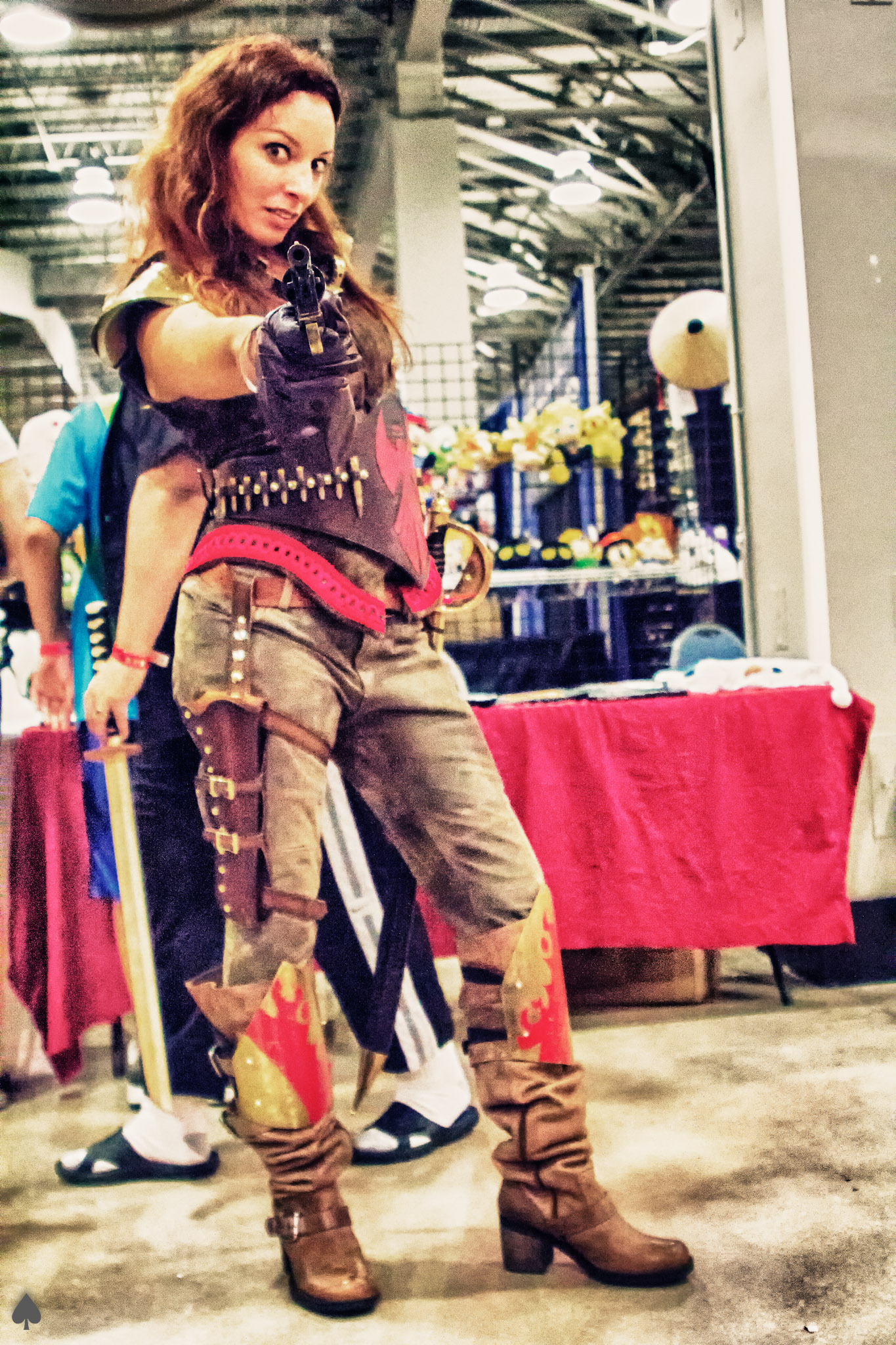 Amy Vitale at the 2012 Florida Supercon on July 1, 2012.